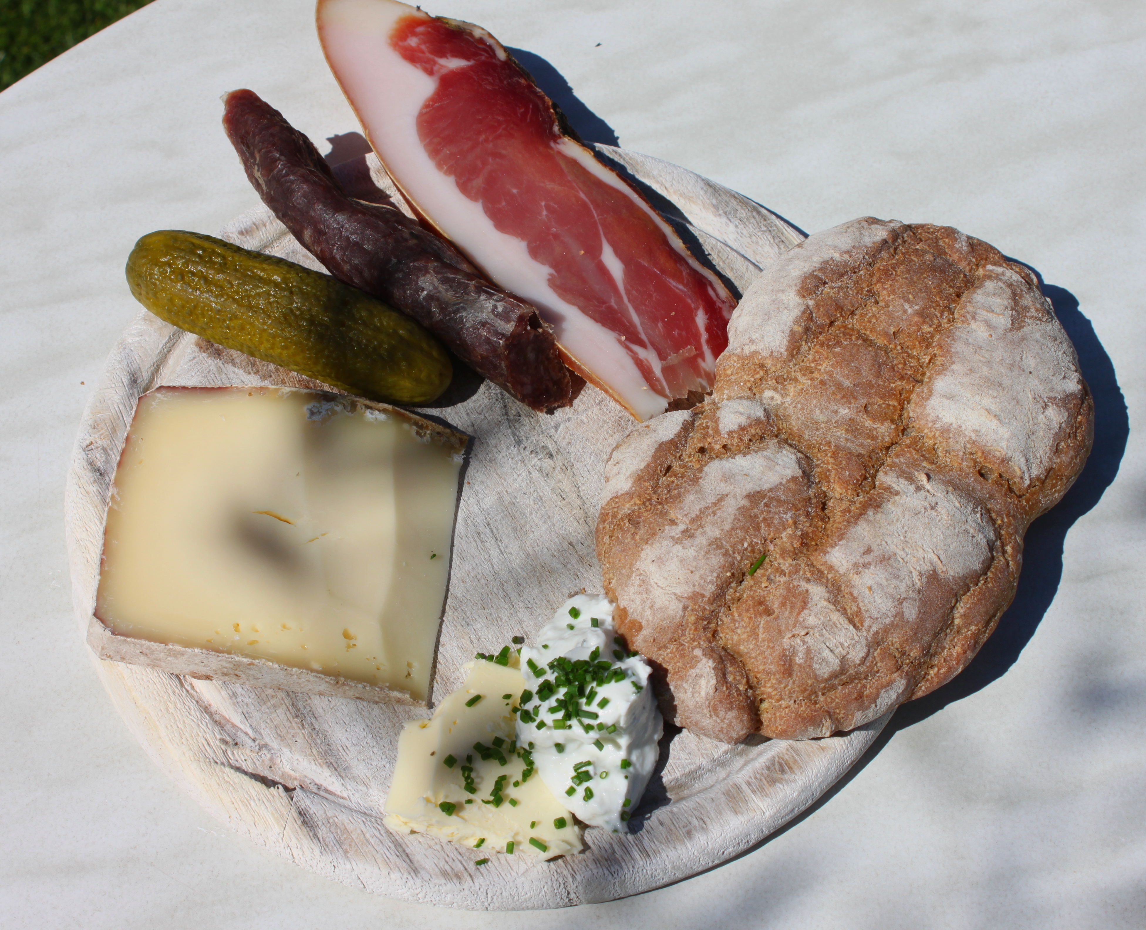 Brettljause with Vinschgerl, Speck, Kaminwurz, pickle, cheese, butter and curd. Photographed in Buschenschank Haidenhof in 39010 Cermes.